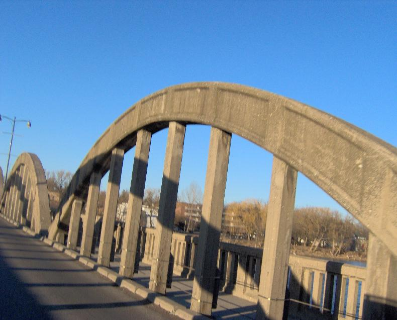 I took this picture and resized it. It may be ut of shape a little. Caledonia, Ontario. The Grand River bridge. I took this picture and resized it. It may be ut of shape a little. Caledonia, Ontario. The Grand River bridge.